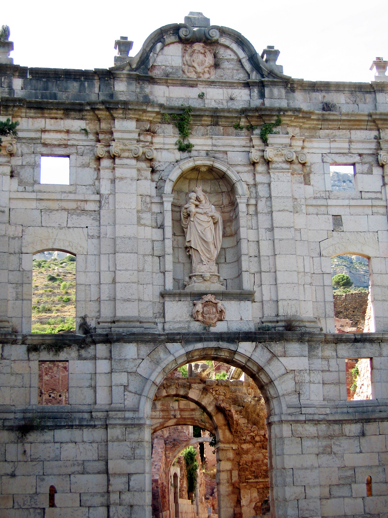 Former carthusian monastery “Cartoixa d’Escaladei” in the Montsant mountains (Catalonia).